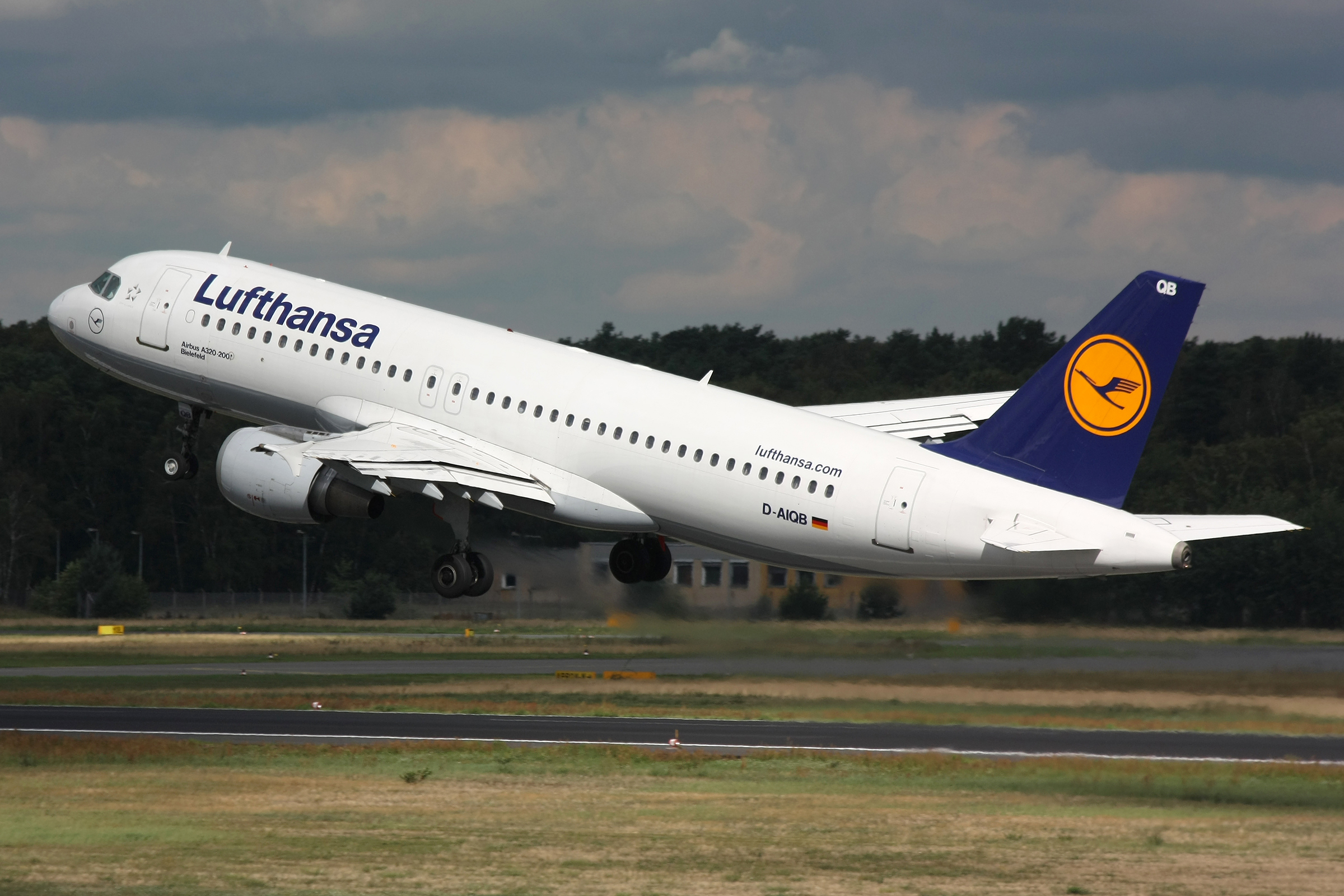 A Lufthansa Airbus A320 departures at Berlin Tegel Airport.